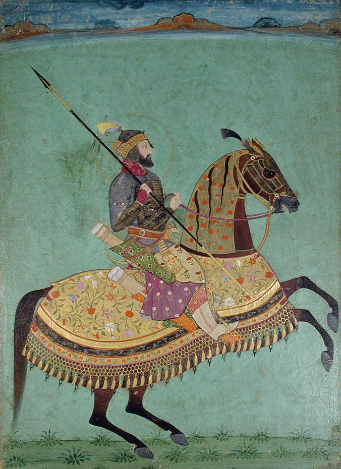 Equestrian portrait of Aurangzeb